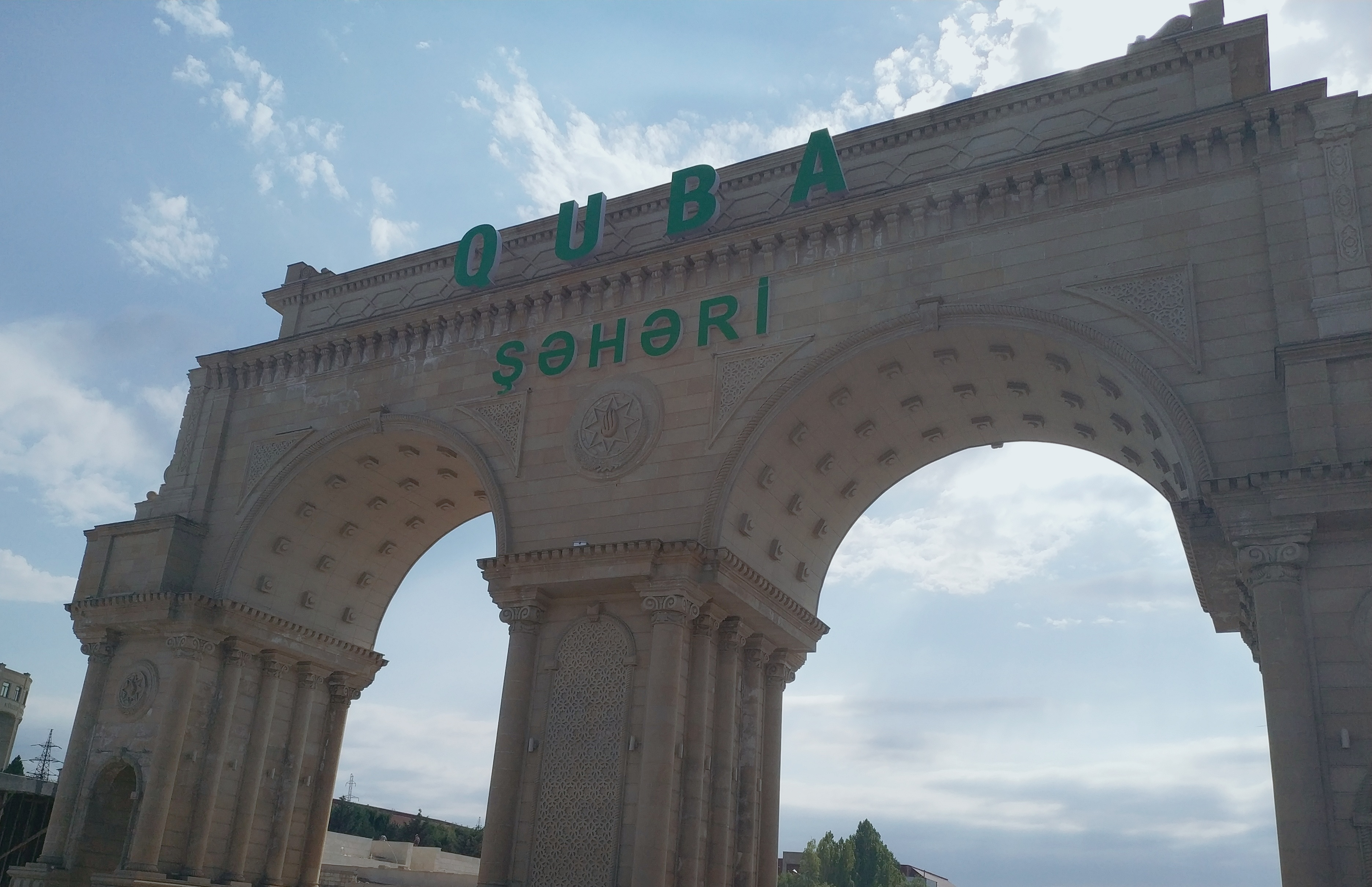 Quba city